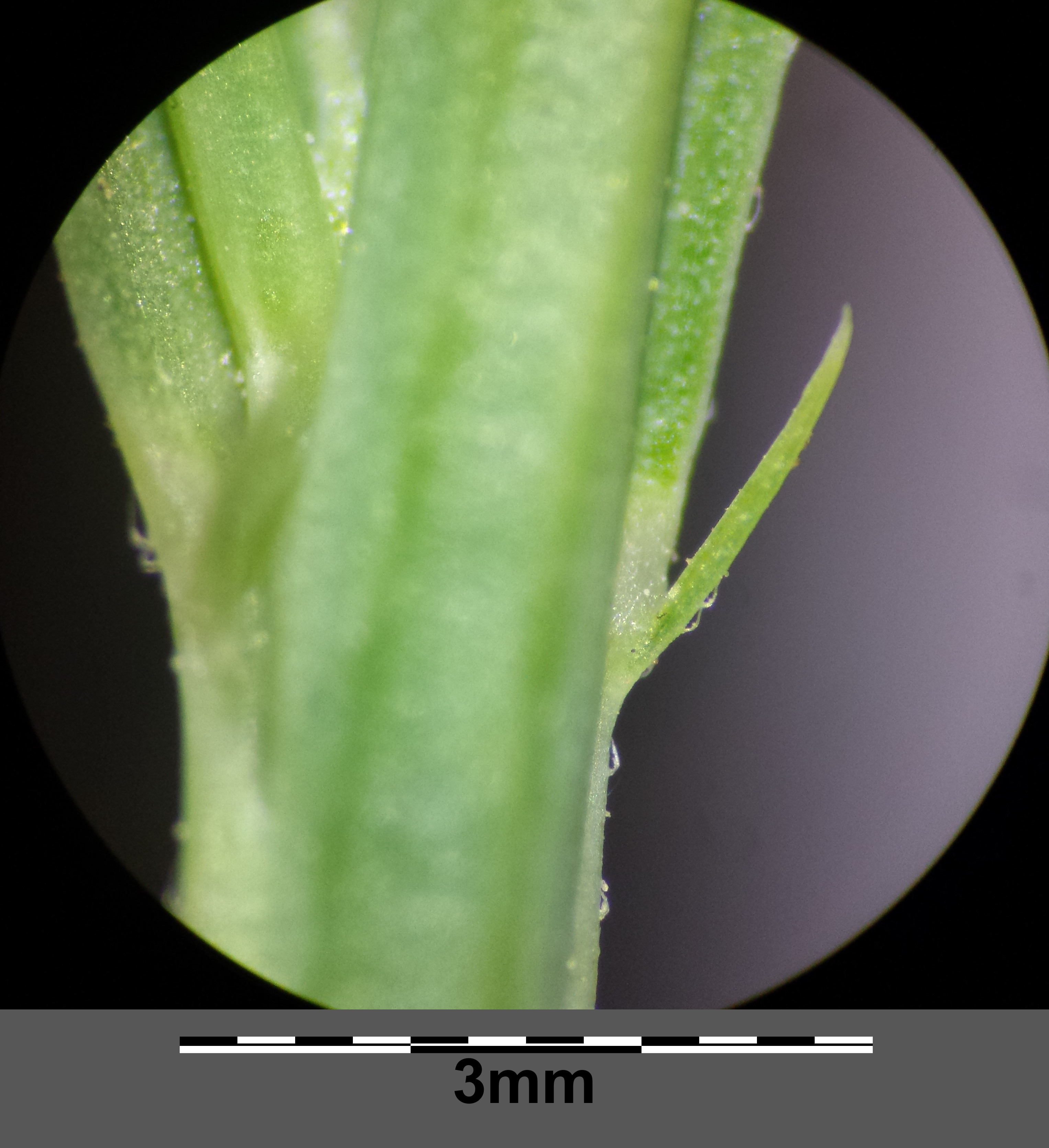 Stem with stipules Taxonym: Lathyrus nissolia ss Fischer et al. EfÖLS 2008 ISBN 978-3-85474-187-9 Location: between Limberg and Burgschleinitz, district Horn, Lower Austria - ca. 350 m a.s.l. Habitat: meadows